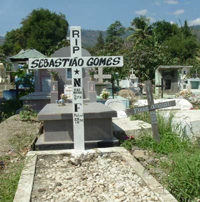 Sebastião Gomes' gravesite in the Santa Cruz cemetery: Dili, East Timor